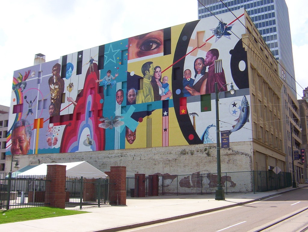 Mural on the eastern side of the Toof Building in Memphis, Tennessee (Perspective 3)